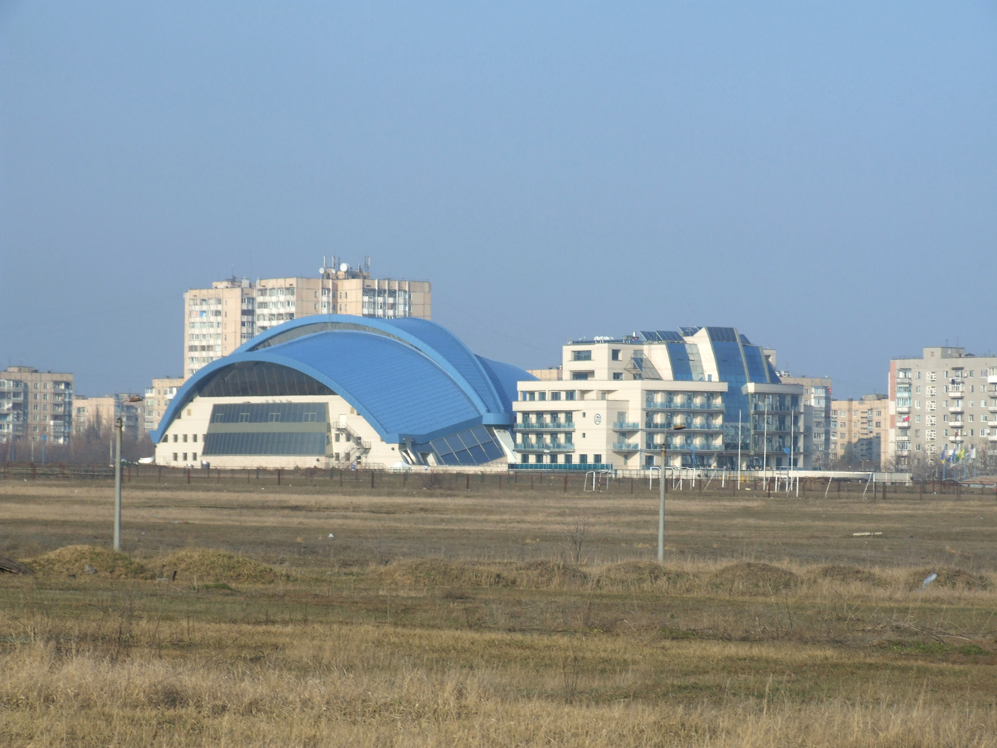 Western side of city of Yuzhne (Odessa Oblast, Ukraine). Sports complex «Olimp» (Olympus) is in front of residential area.